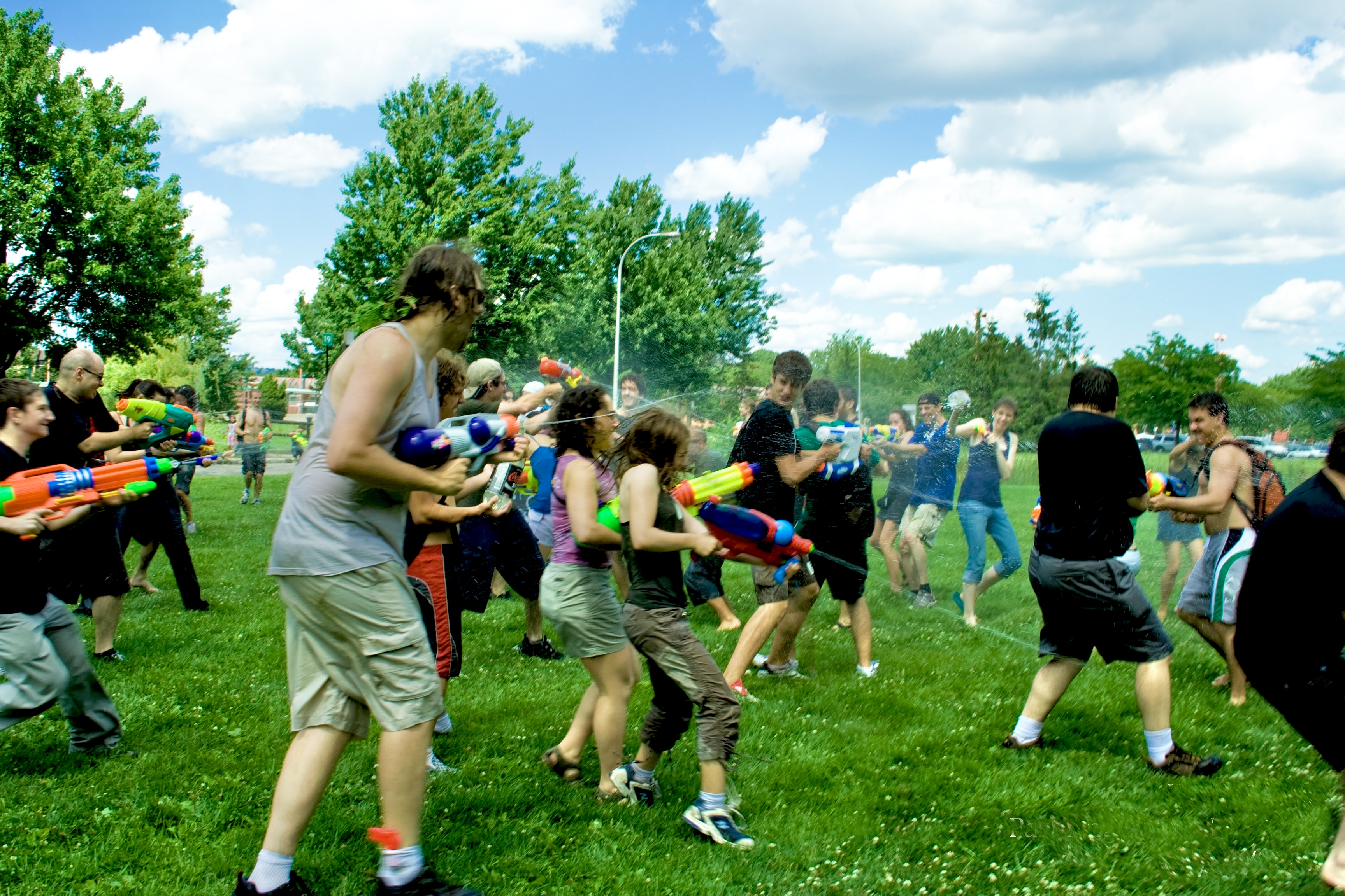 Water Battle in Parc Angrignon, Montreal (Canada), in July 2007.